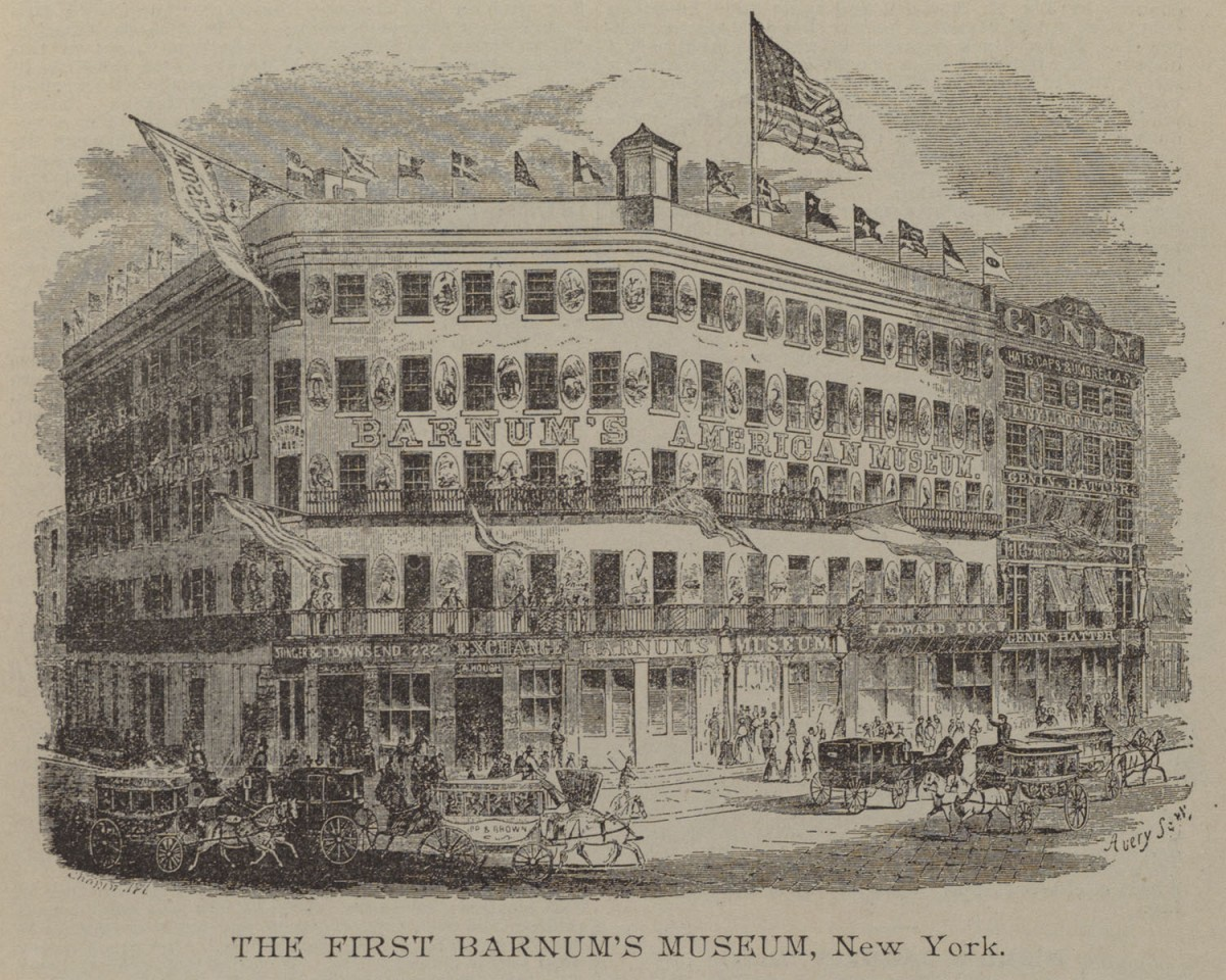 First Barnum's Museum in New York City